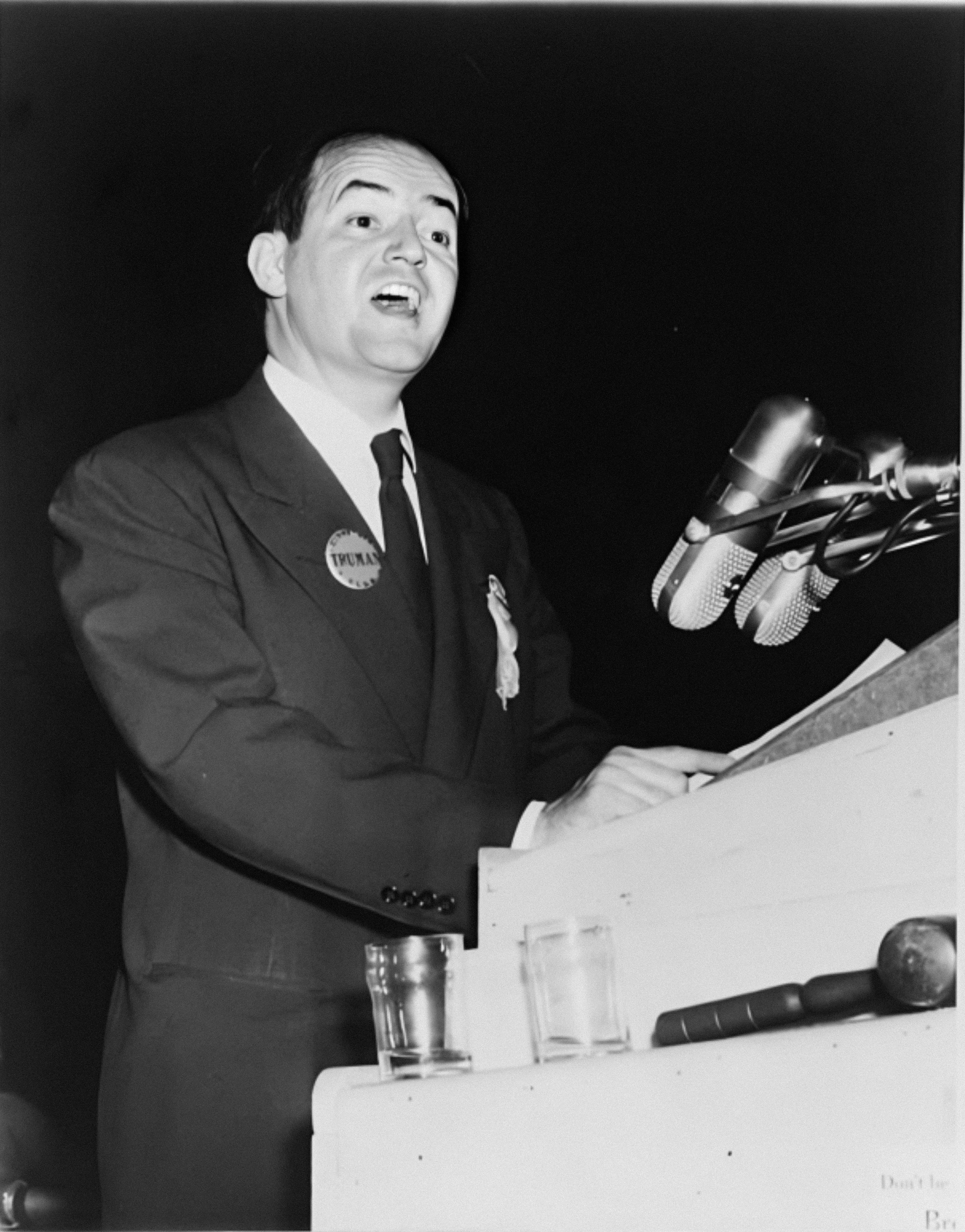 Hubert H. Humphrey, as the Mayor Minneapolis wears a Harry S. Truman button as he addresses the Democratic National Convention in Philadelphia, July 14 1948.